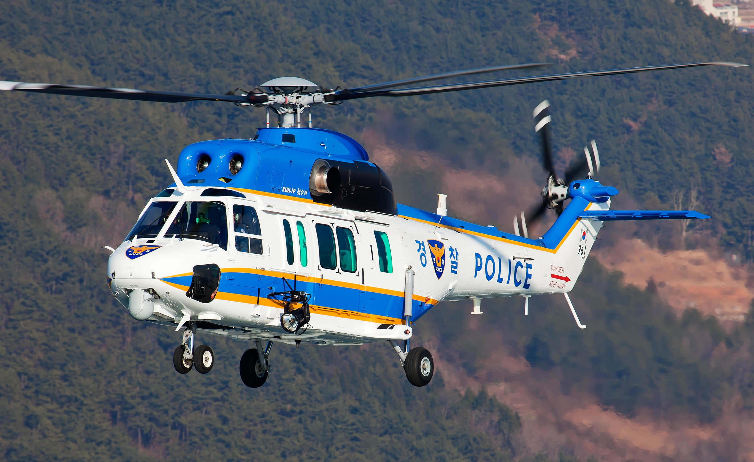 Korean Police version (KUH-1P/ Cham Suri) / Demo Flight / Photo by JangSu Lee (2013) 한국항공우주산업